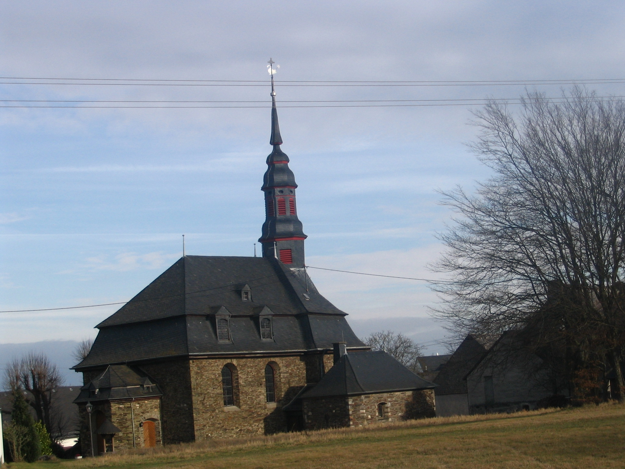 Kapelle Sevenich in the Hunsrück landscape, Germany